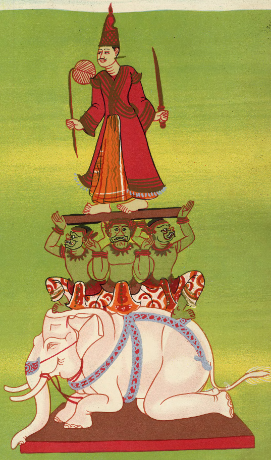 Mahagiri nat (spirit), th in the official pantheon of Burmese nats